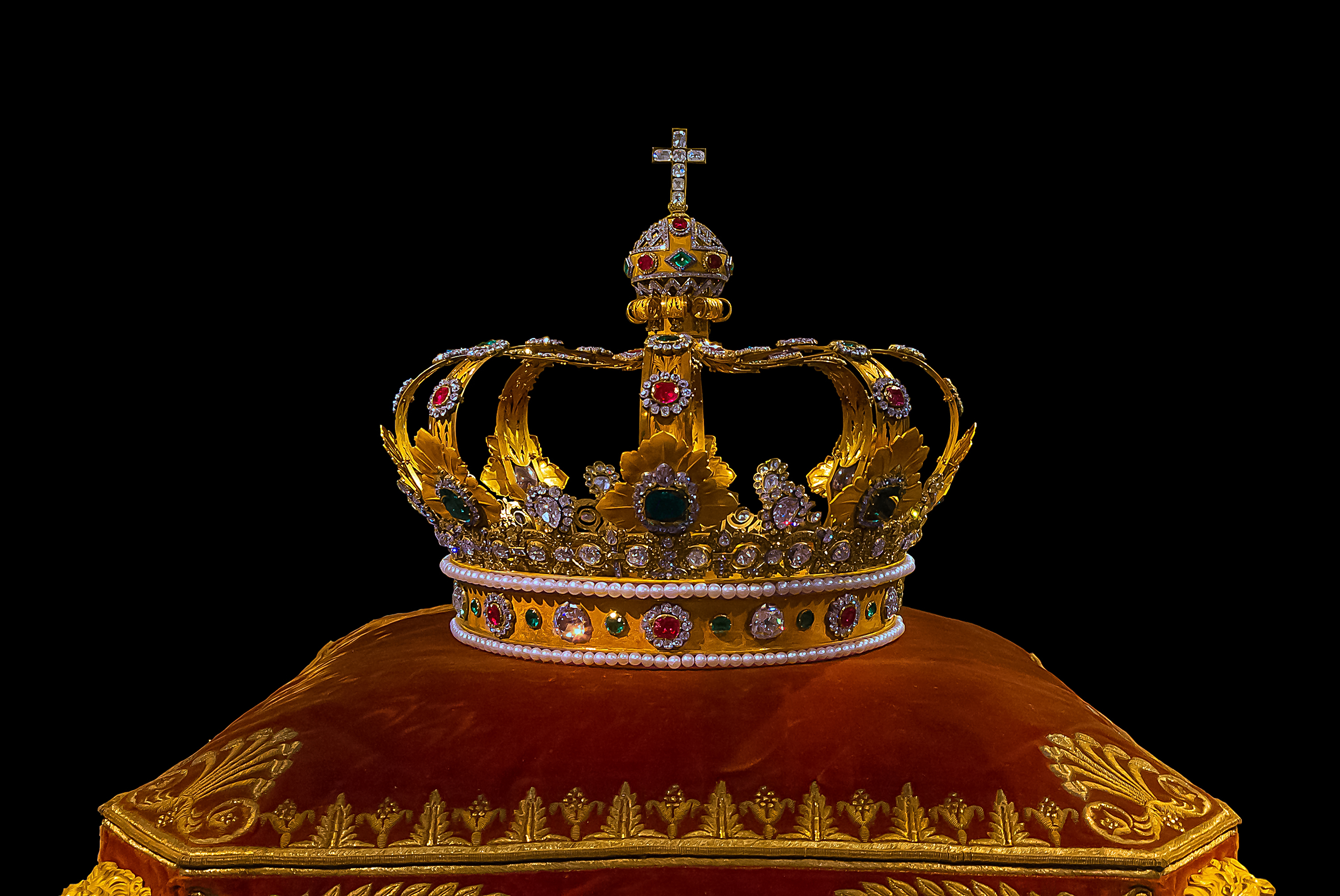 The crown of the Kings of Bavaria, by Marie-Étienne Nitot (1750-1809), jeweler, Jean-Baptiste Leblond and Martin-Guillaume Biennais (1764 - 1843), goldsmiths. Paris, 1806-1807. Schatzkammer, Residenz, Munich, Bavaria, Germany.